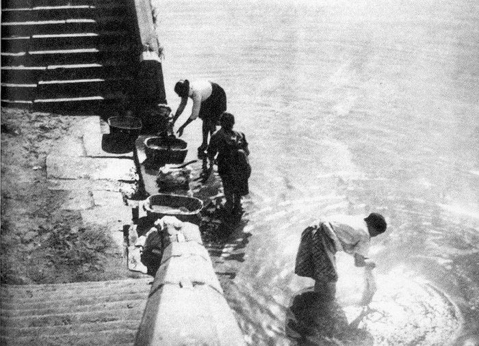 Residents of the House on Embankment doing laundry in the Moscow river nearby